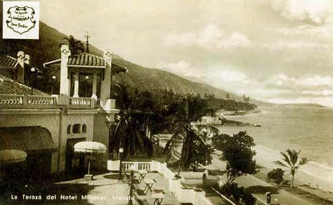 Miramar Hotel, Macuto, 1922.